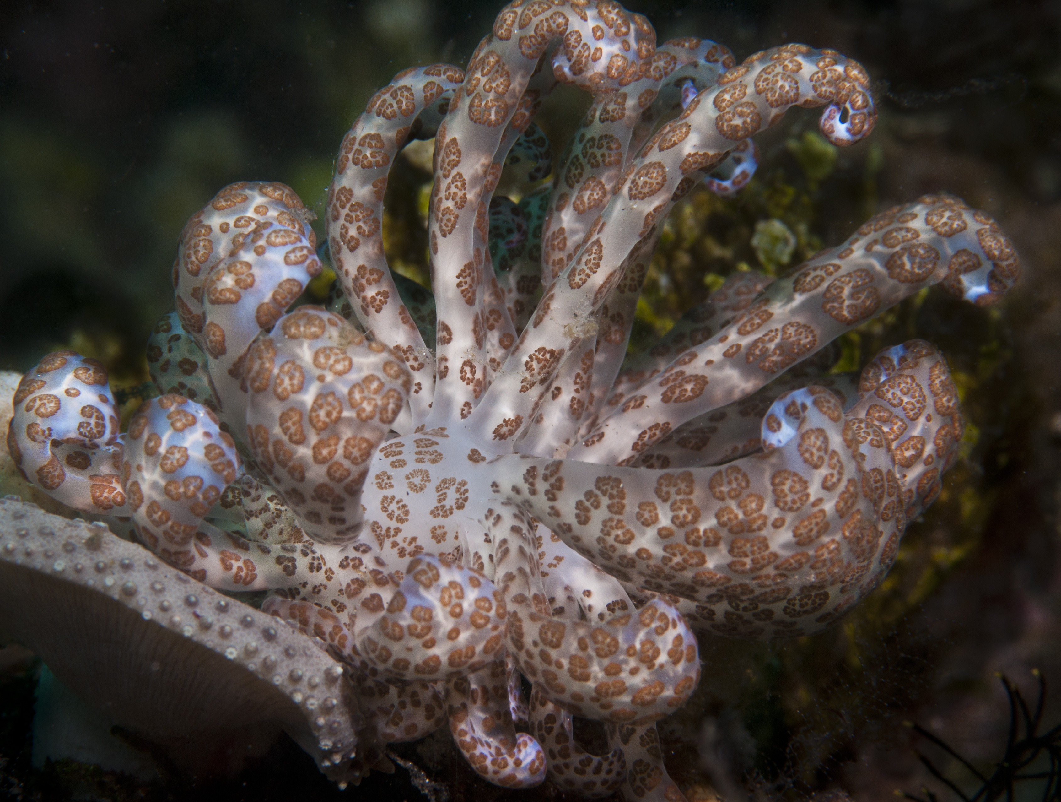 Frontal closeup of an individual Phyllodesmium longicirrum, often called the solar powered nudibranch. From Alor area, Indonesia.